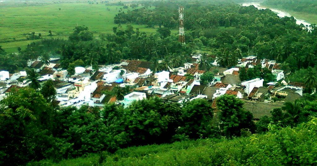 Hilltop view of Saripalli village in Vizianagaram district, Andhra Pradesh